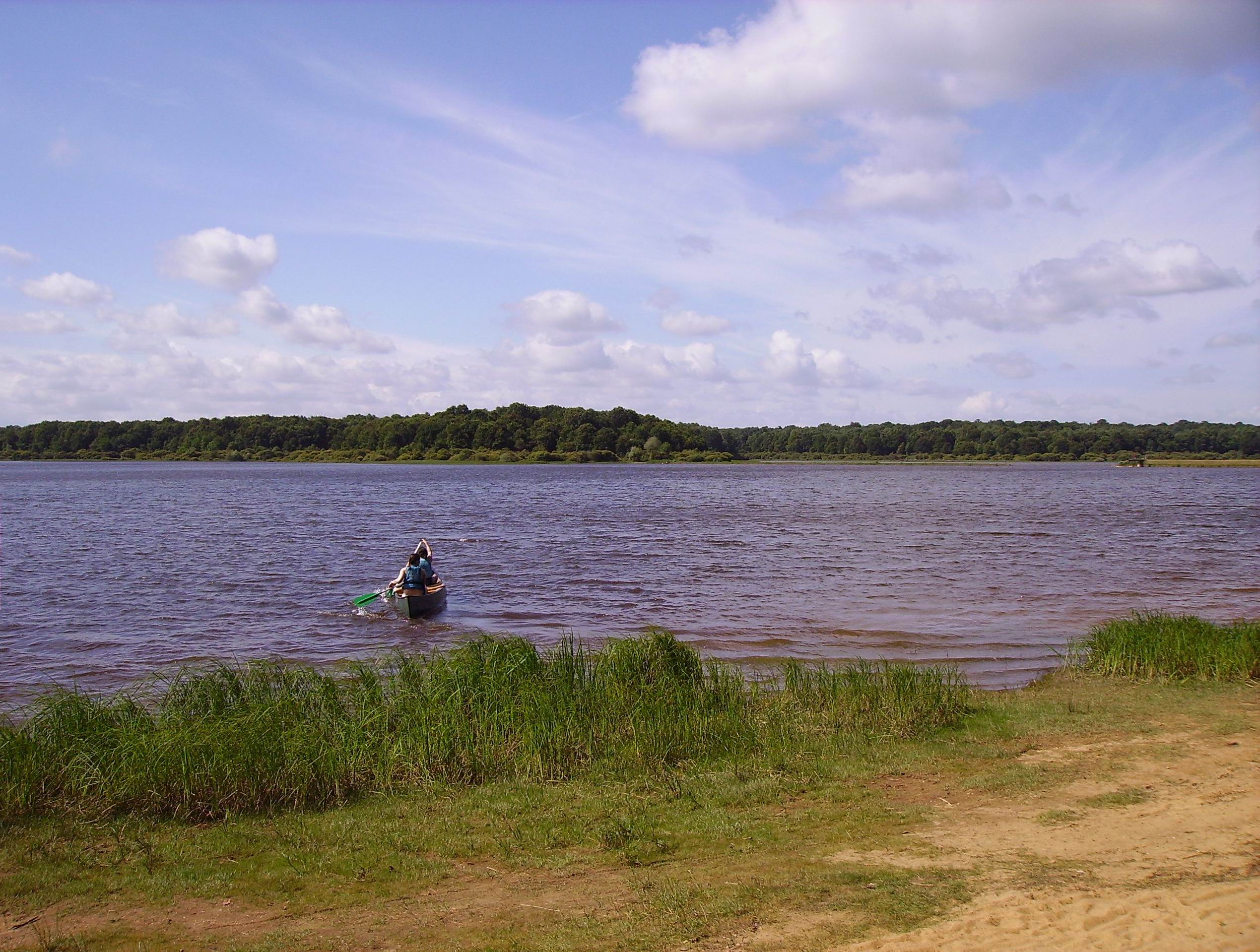 Lac du Bourdon (Bourgogne, France) of 220 ha. The campsite is located behind the photographer.